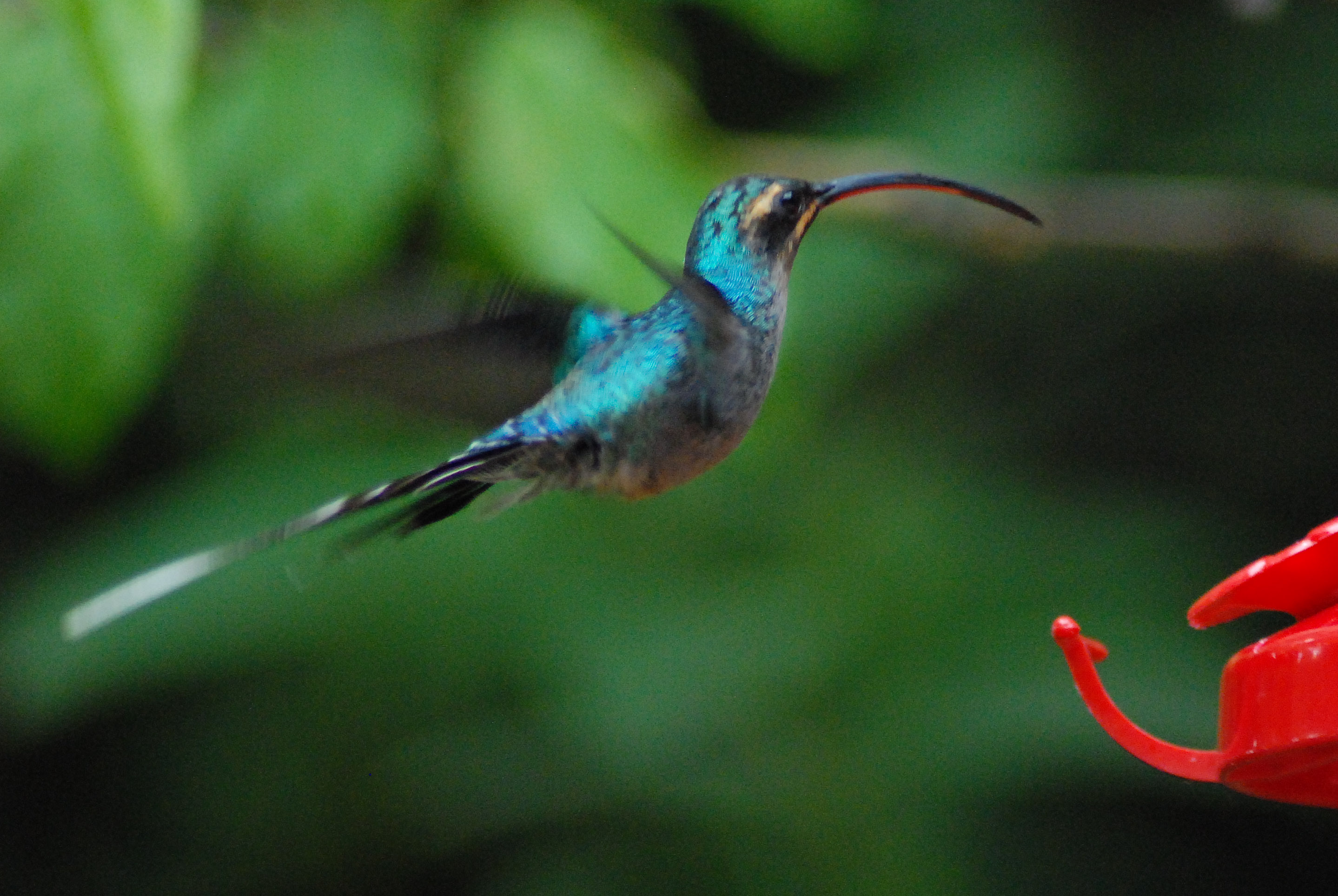 Green Hermit (Phaethornis guy) from Monteverde (Costa Rica)